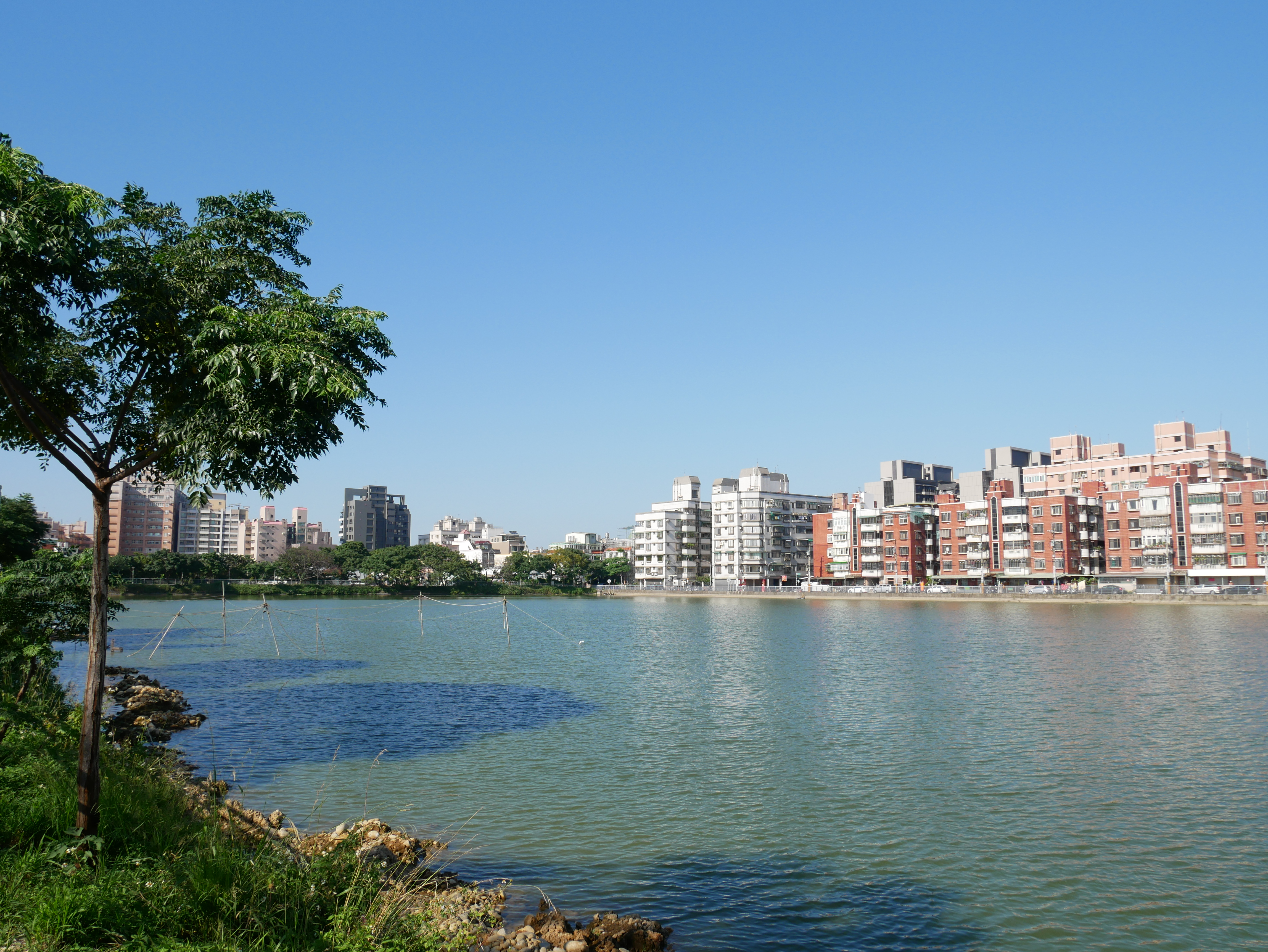 桃園大圳第2支線第6號池，桃園市桃園區中路次分區龍鳳里